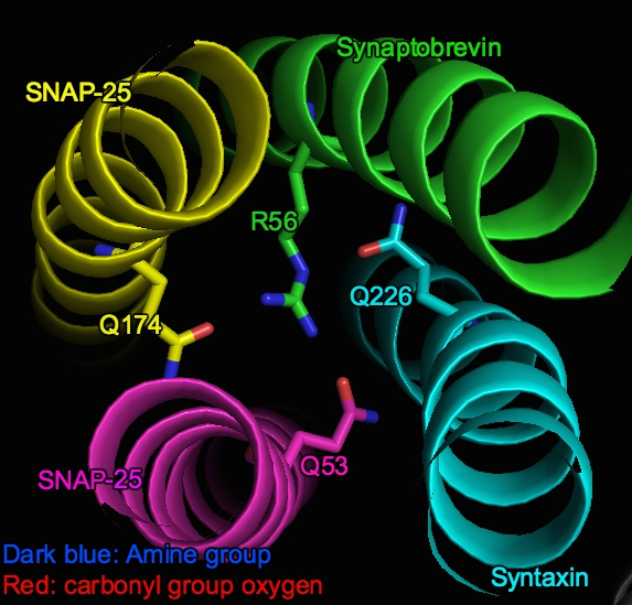 changed label